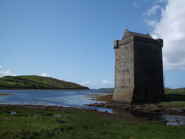 Rockfleet Castle (Carraig-an-Cabhlaigh) A mid-c16 Tower House on an inlet from Clew Bay, associated with Grace O'Malley